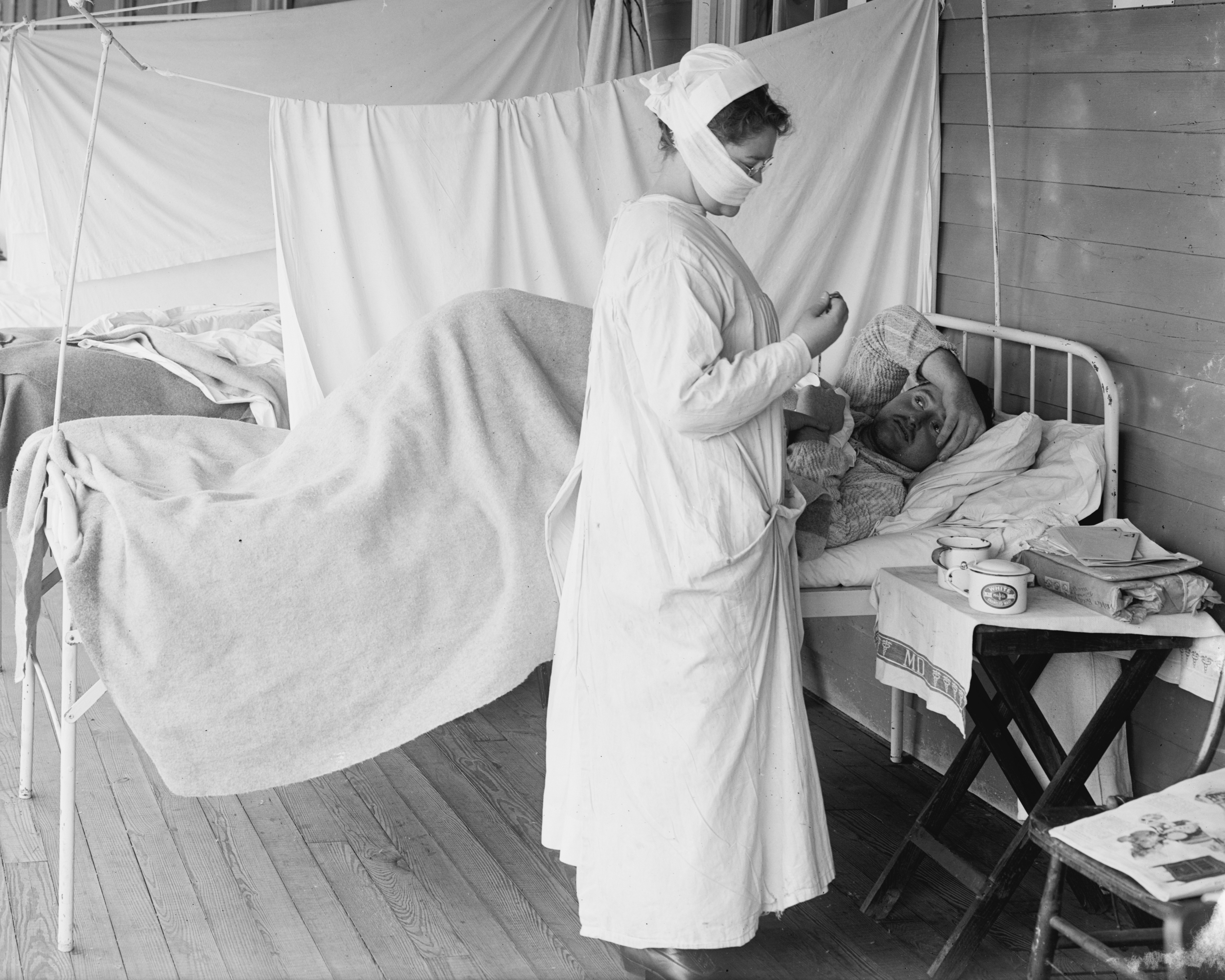 "Walter Reed Hospital Flu Ward". Photo of Walter Reed Hospital, Washington, D.C., during the great Influenza Pandemic of 1918 - 1919, also known as the "Spanish Flu". Patients are set up in rows of beds on an open gallery, seperated by hung sheets. A nurse wears a cloth mask over her nose and mouth.